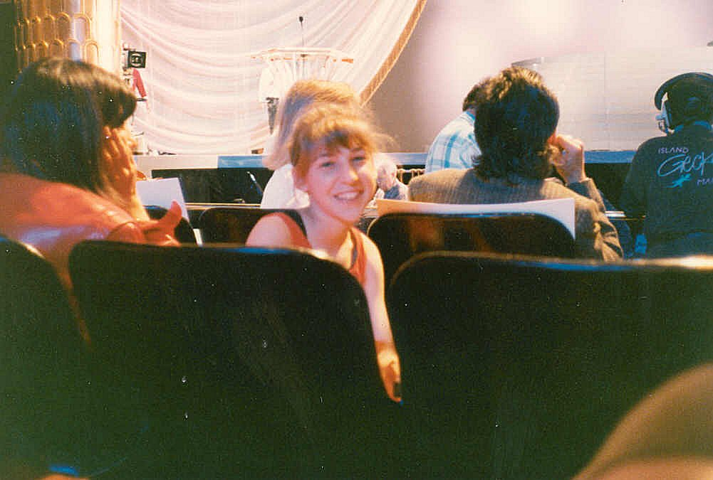 Mayim Biyalik at the rehearsal for the 1989 Academy Awards (her opening number got cut)